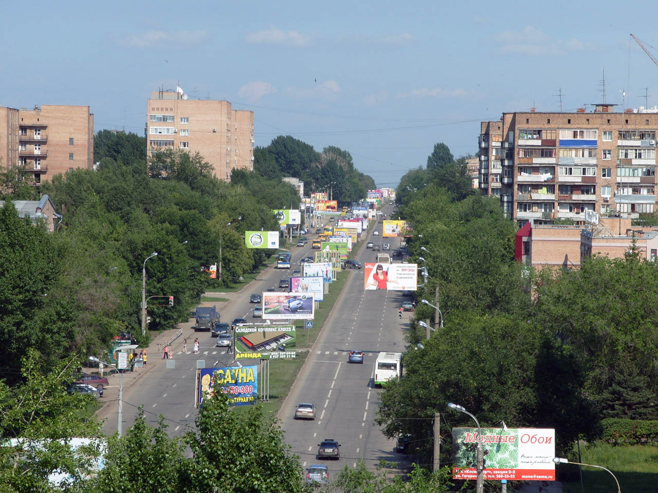 Samara, Gagarina st.